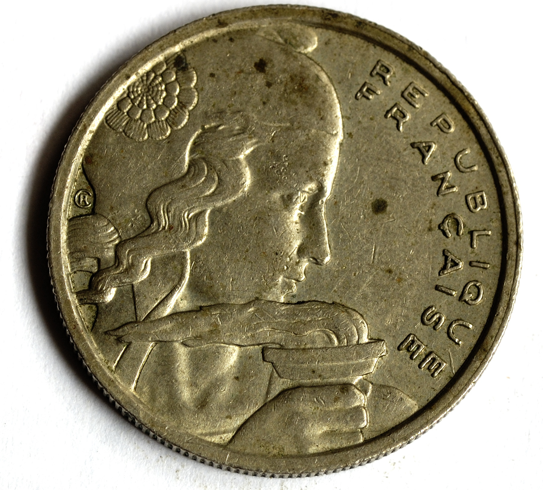 100 French francs